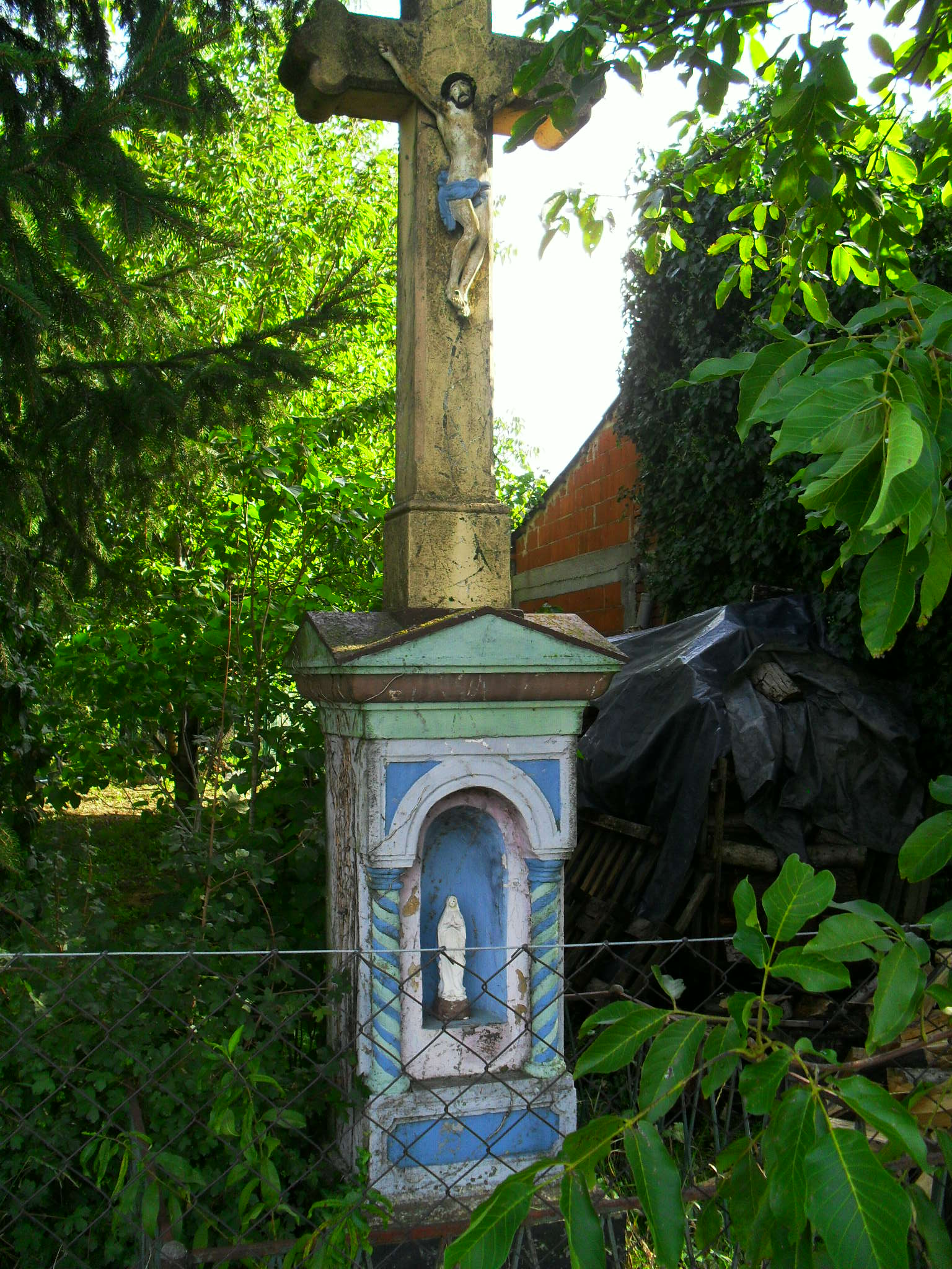 Cross in Miklavec, Međimurje, Croatia